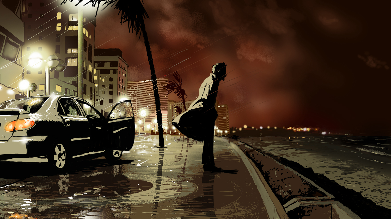 Illustration by David Polonsky